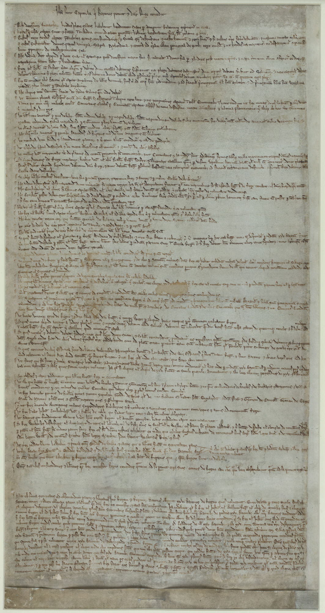 Additional MS 4838 + seal Released under British Library copyright statement "Public Domain Mark 1.0" at for more details.